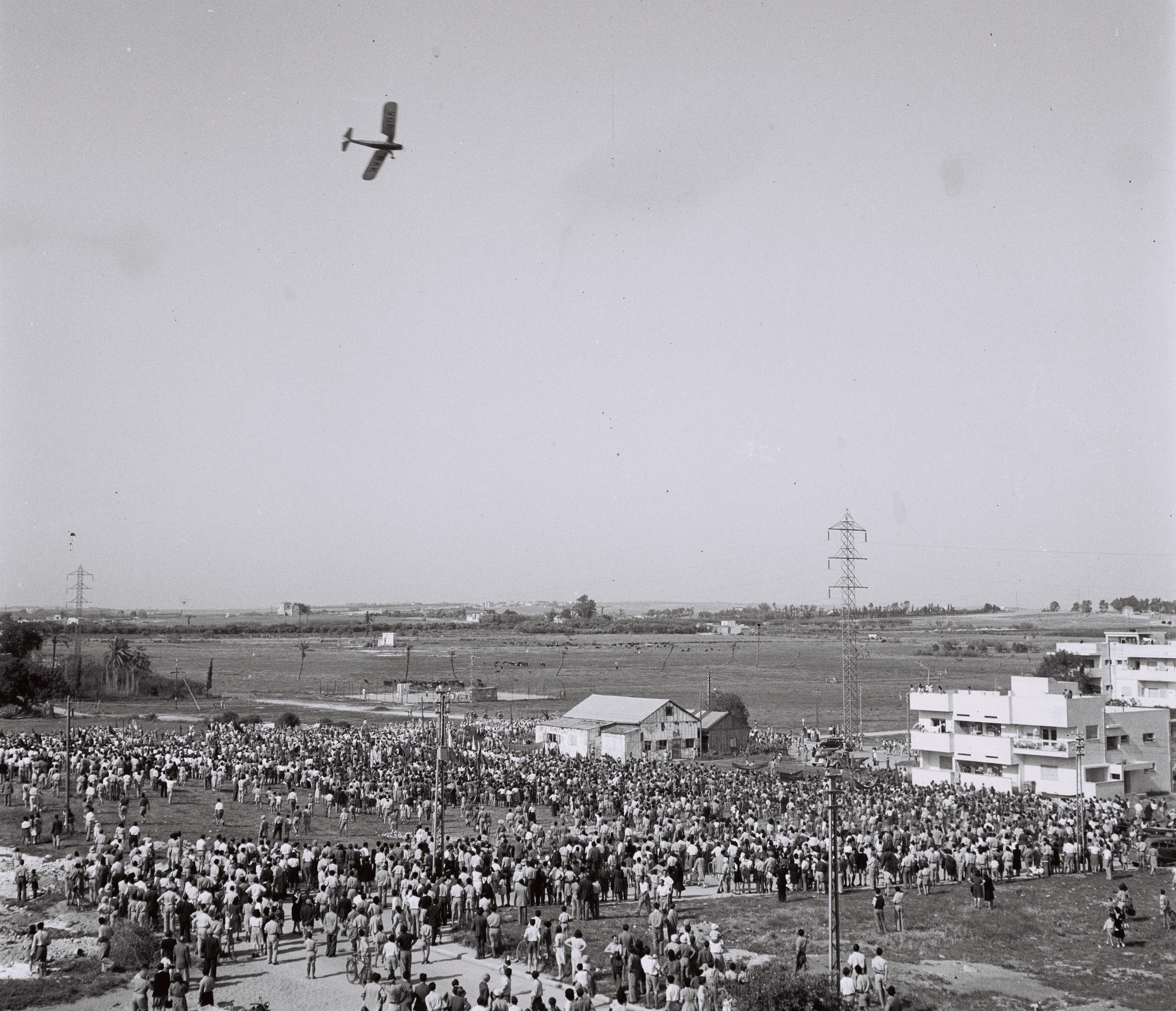 An aerial display above Tel Aviv during the May Day Parade.